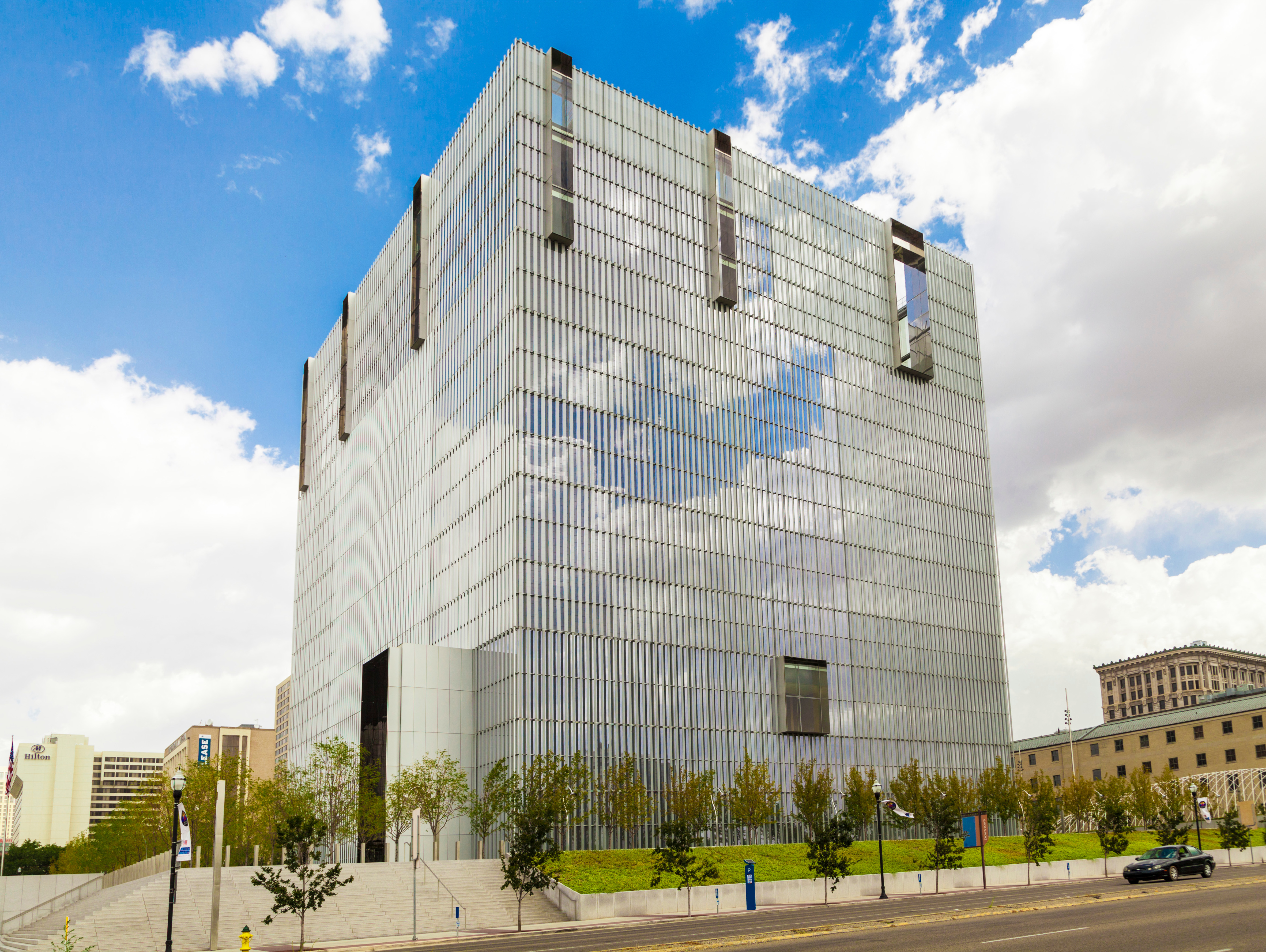 US Courthouse Bulding (351 S. West Temple) in Salt Lake City, Utah, USA.